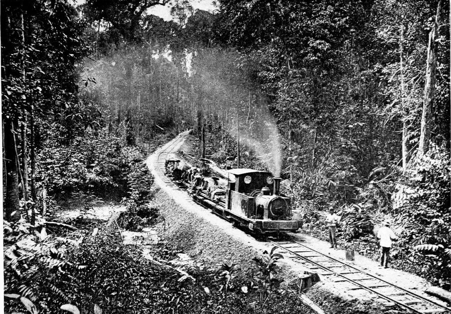 North Borneo Chartered Company: North Borneo Railway; The first train in North Borneo; 3rd February 1898